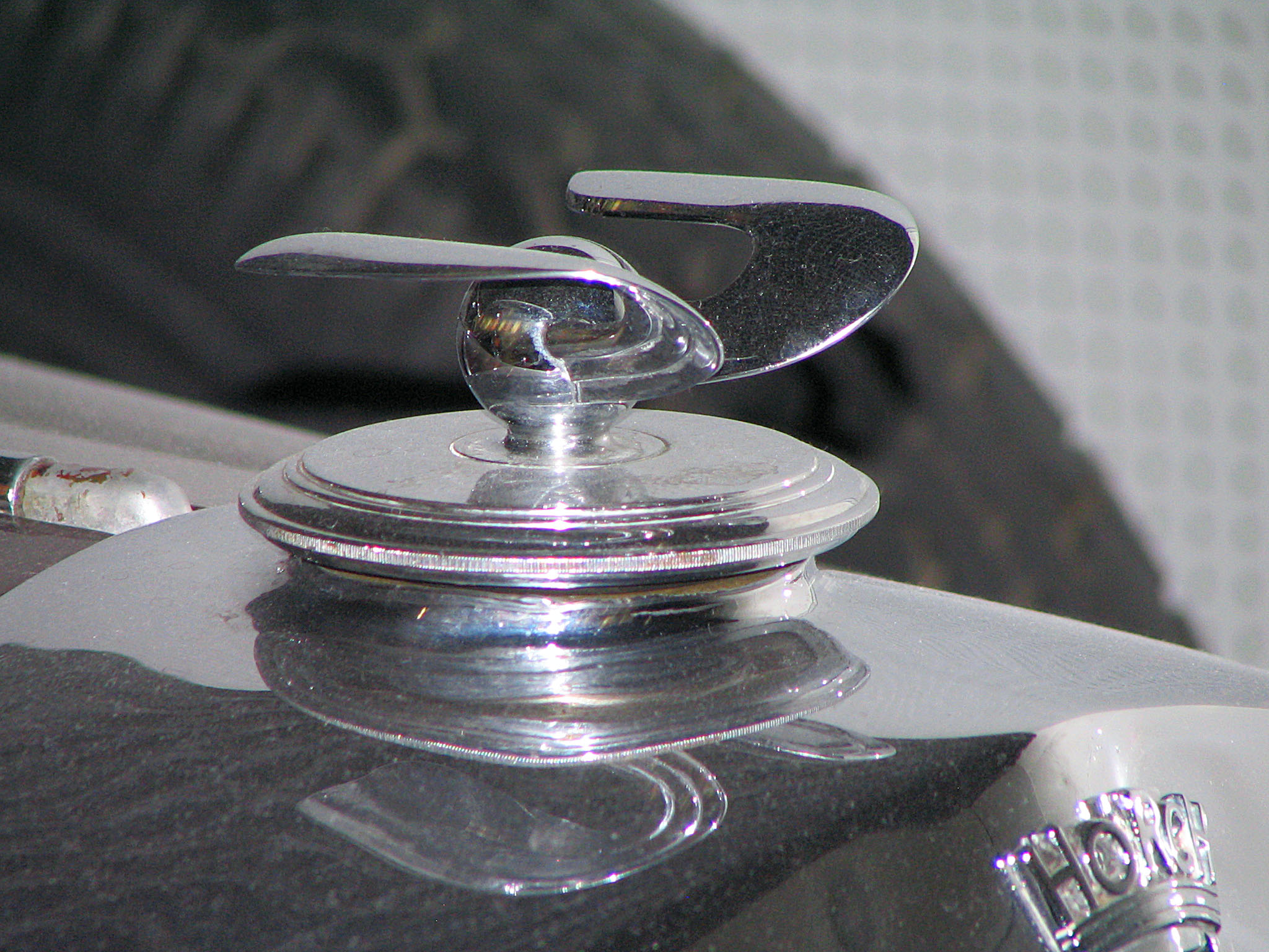 Hood ornament Horch 830 BL 1938 Kühlerfigur Horch 830 BL 1938